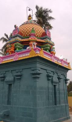 Arichandrapuramchandramoulisvarartemple அரிச்சந்திரபுரம்சௌந்தரமௌலீஸ்வரர்கோயில்